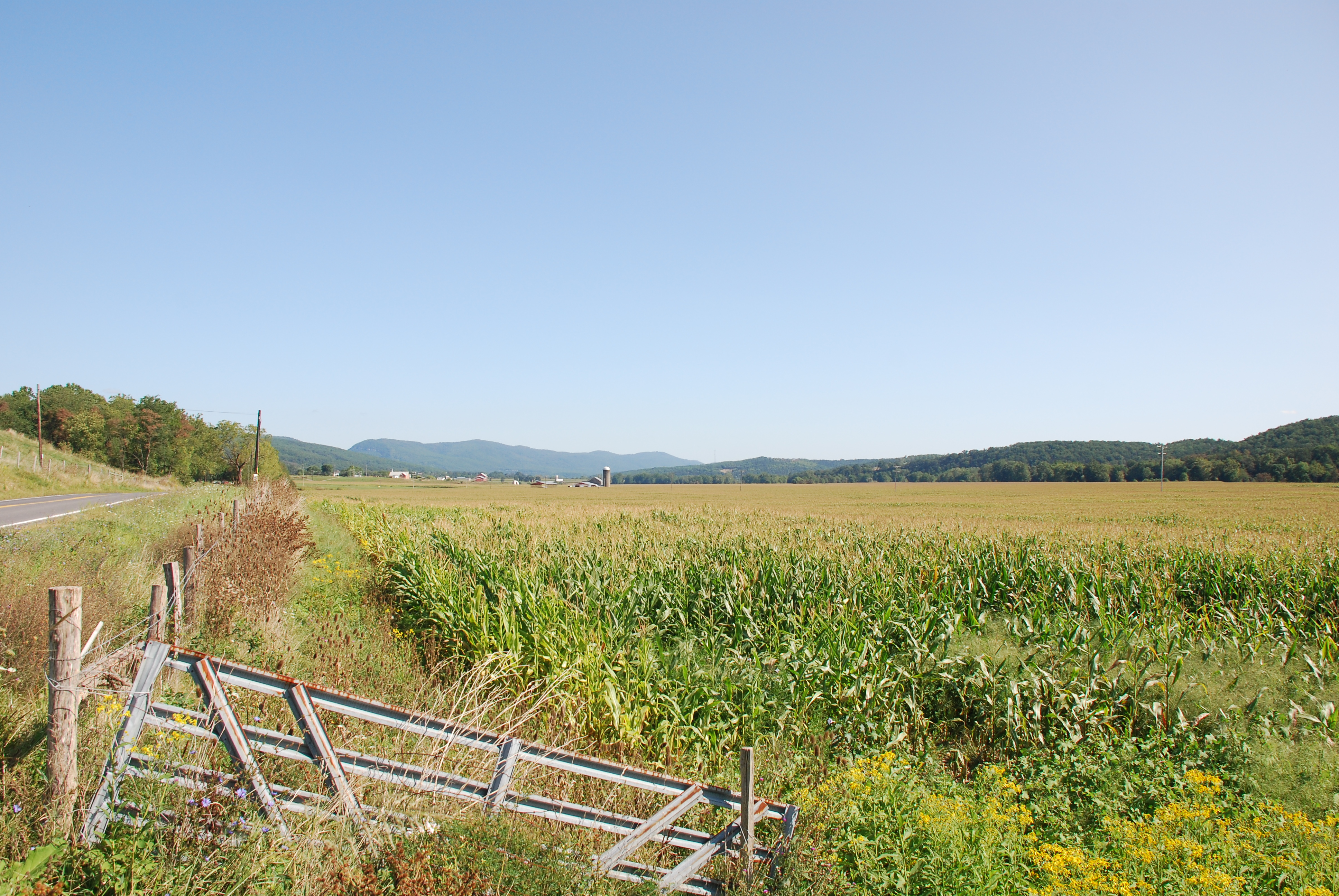 Corn fields in the South Branch Potomac River valley around Upper Tract, West Virginia.